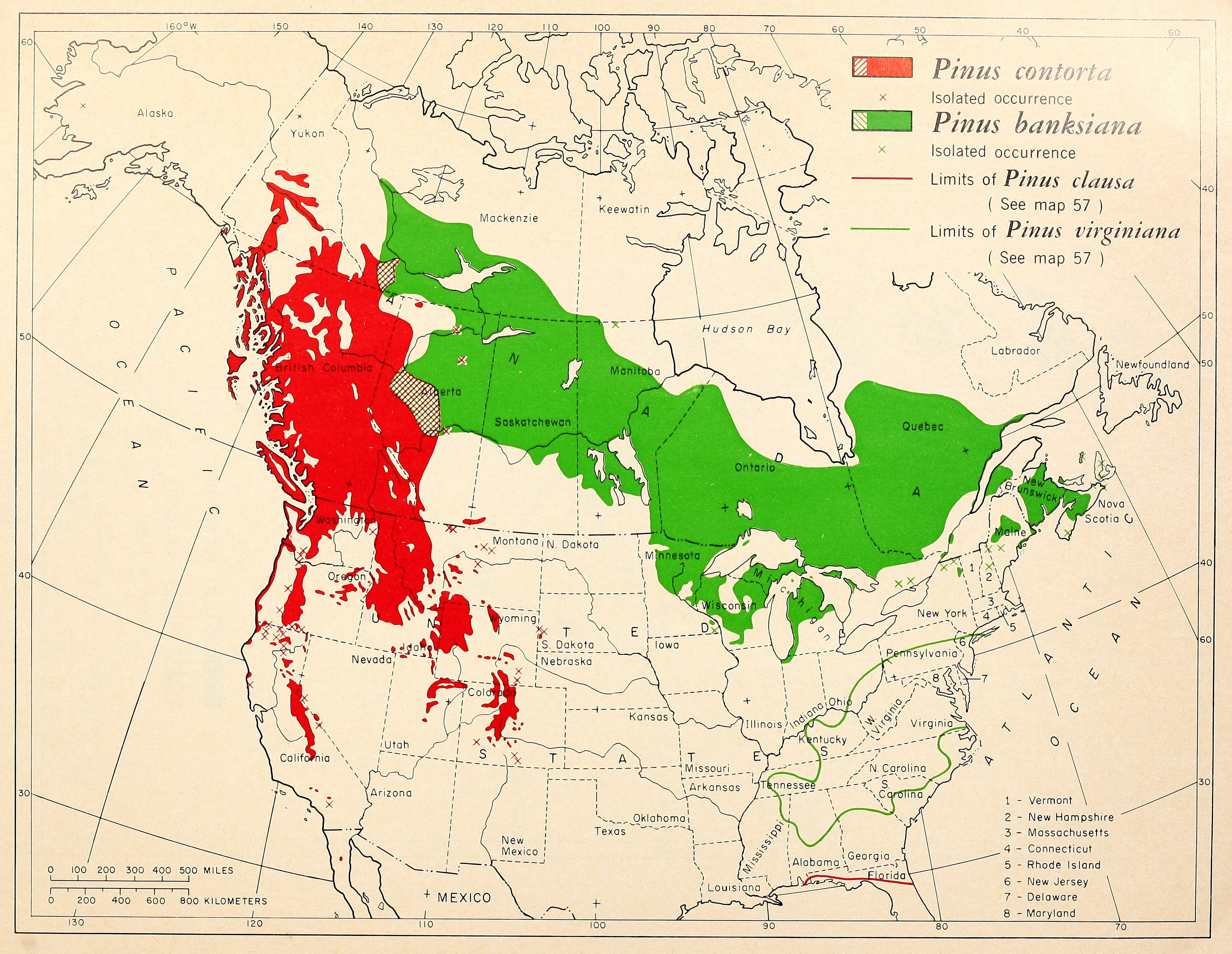 Map 56. Pinus contorta & Pinus banksiana distribution